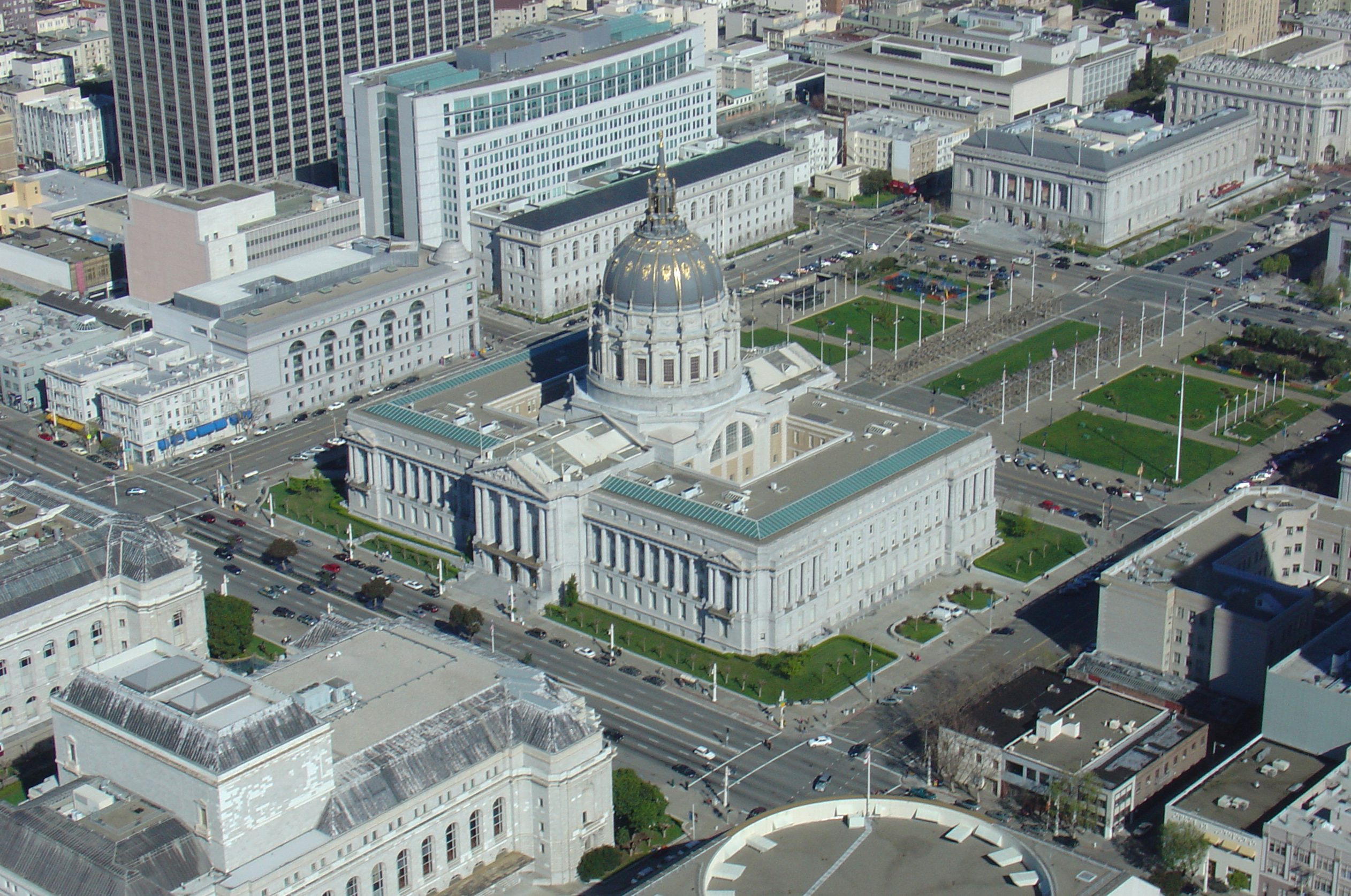 San Francisco City Hall, aerial shot